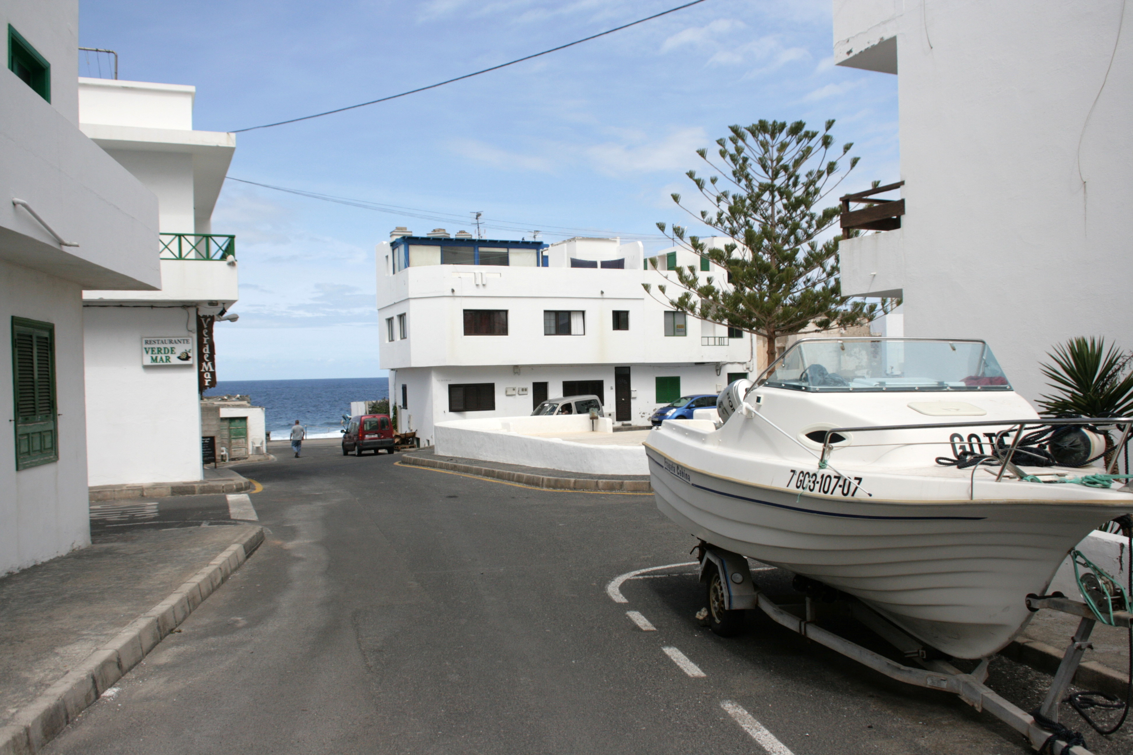 Lugar la Santa La Santa, Tinajo, Lanzarote, Canary Islands